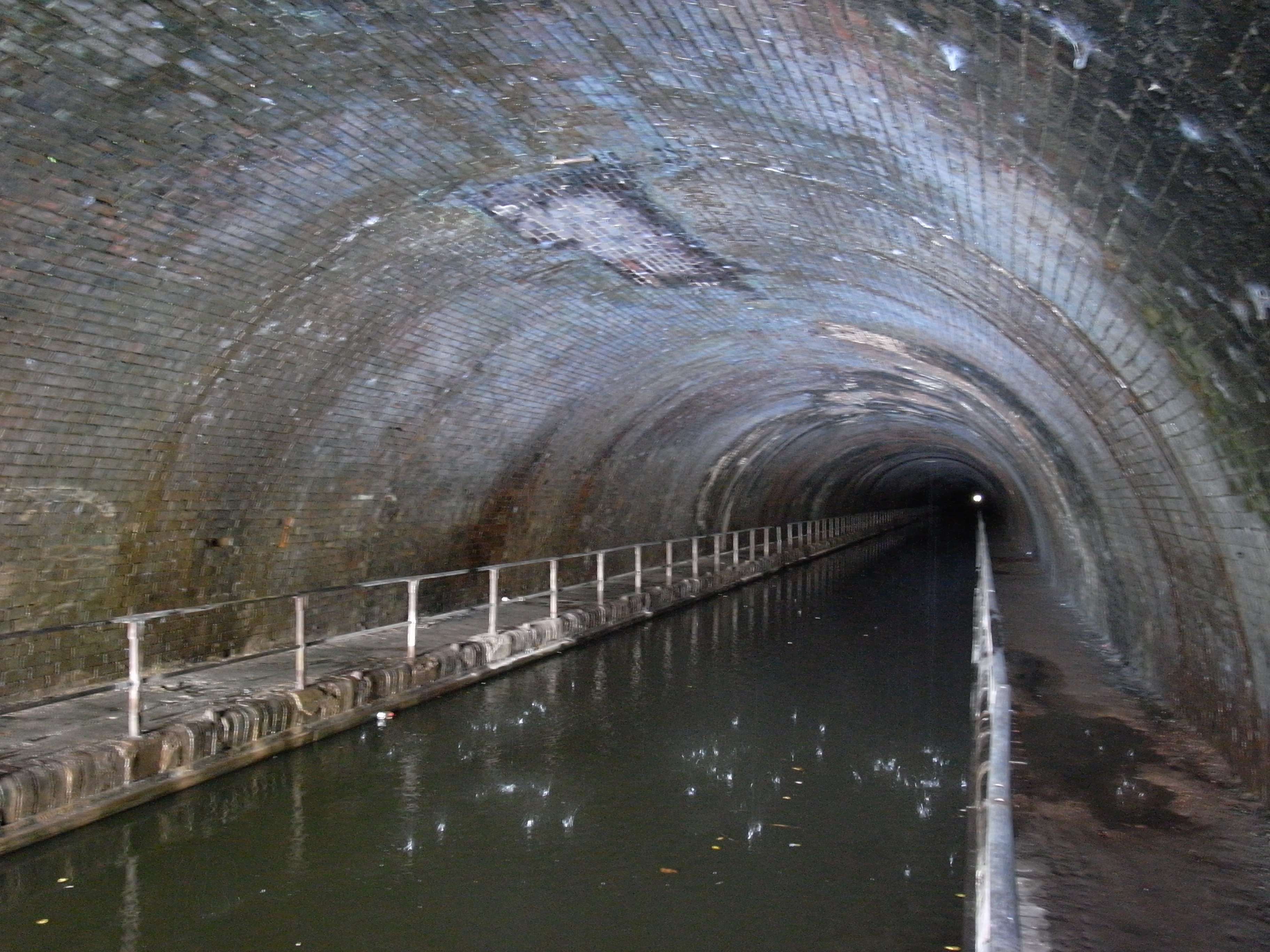 Just inside the northern portal of the Netherton Tunnel on the Netherton Tunnel Branch Canal (part of the Birmingham Canal Navigations in Tividale, West Midlands, England. The 2768 metre tunnal has a towpath on each side of the canal.